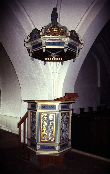 Haslev Kirke (church) in Faxe Kommune. Pulpit from 1579.